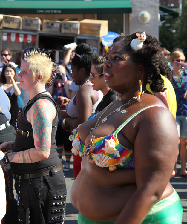 Pride is about acceptance, no matter how tall or short, big or small, color or gender, sexuality or wealth. At the Capital Pride parade near Dupont Circle in Washington, D.C., in the United States on June 9, 2012.